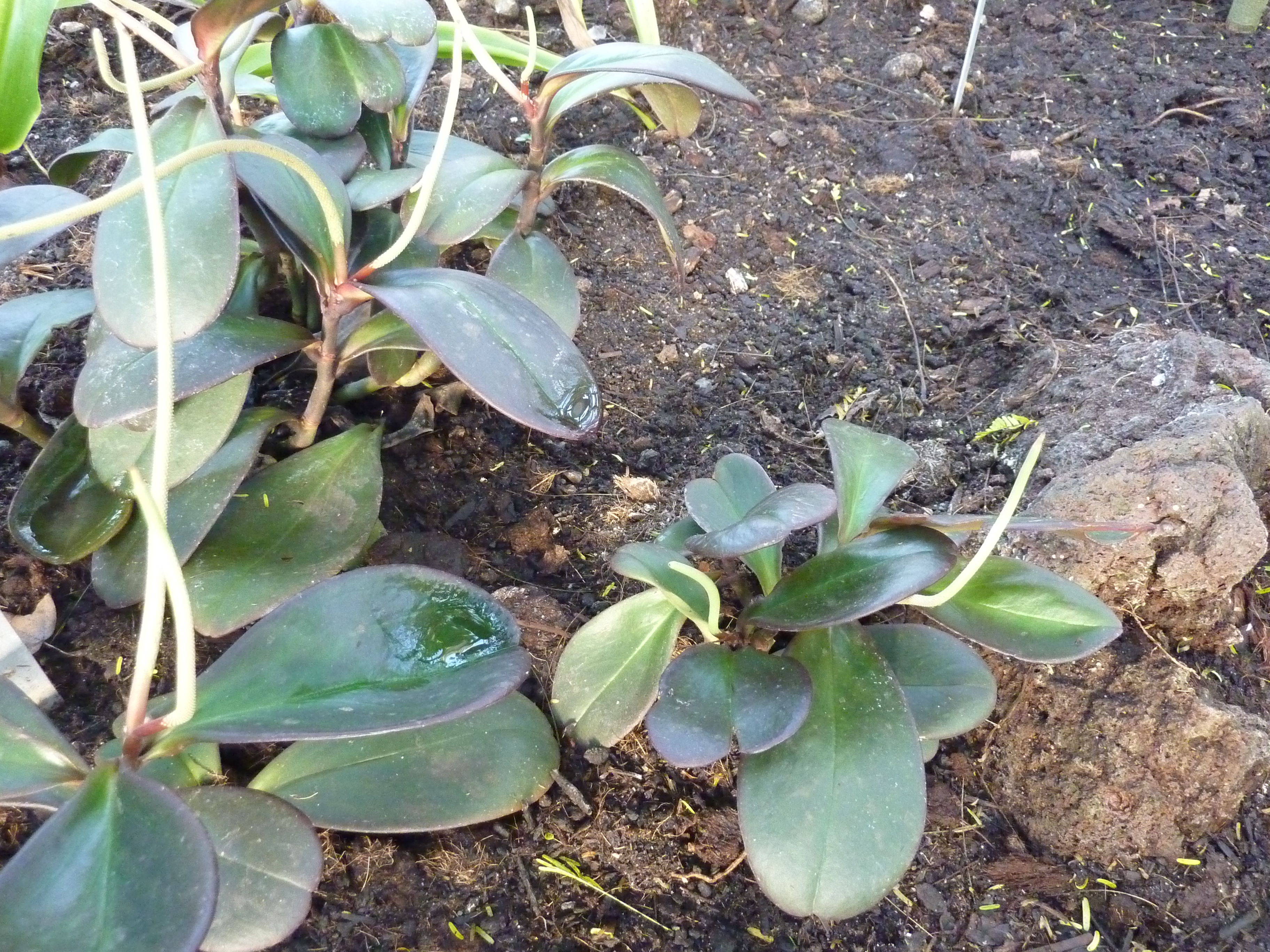 Peperomia clusiifolia in the Botanical Garden, Berlin